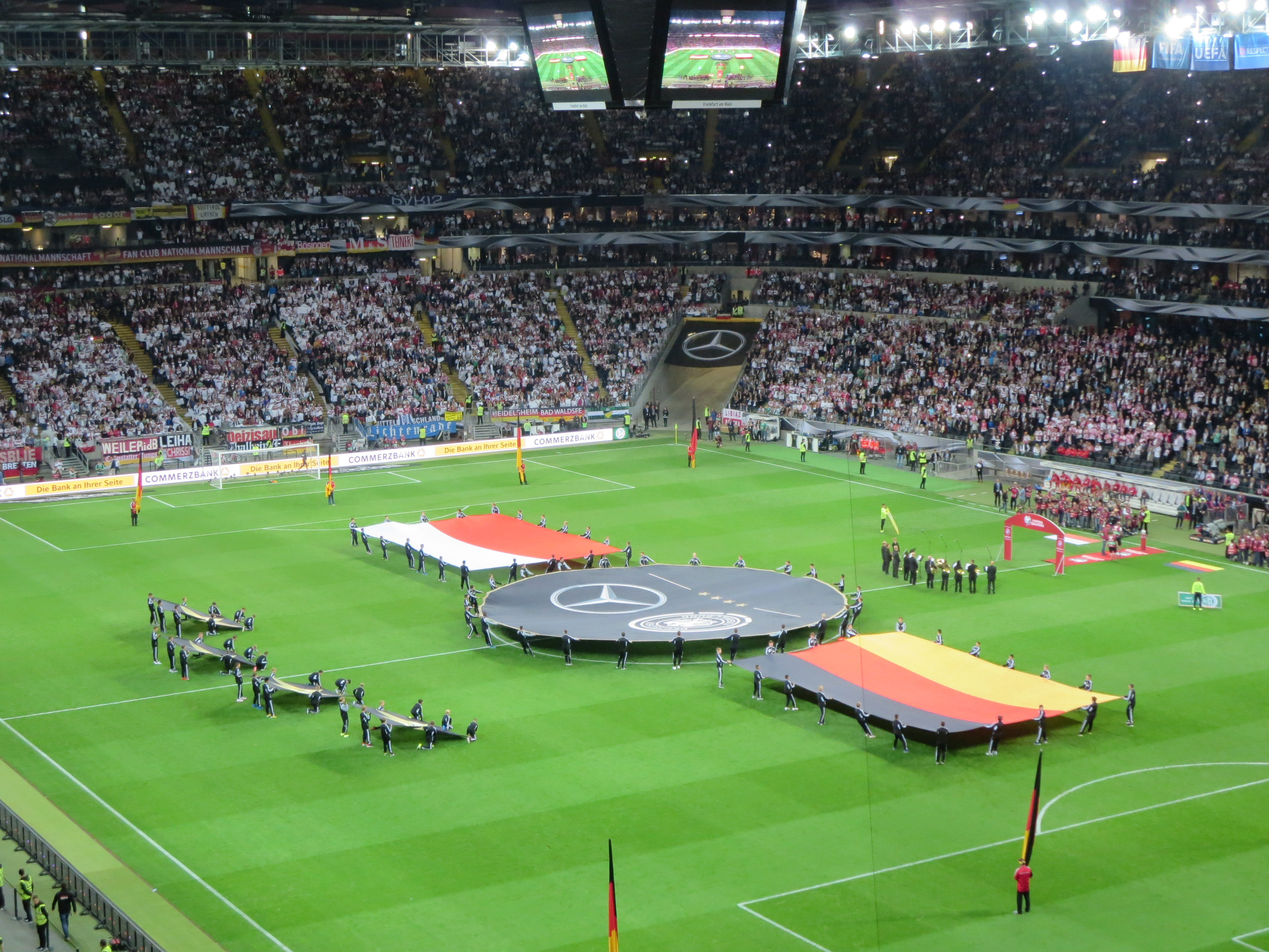 Germany vs Poland, match of the Group D of the the UEFA Euro 2016 qualifying.